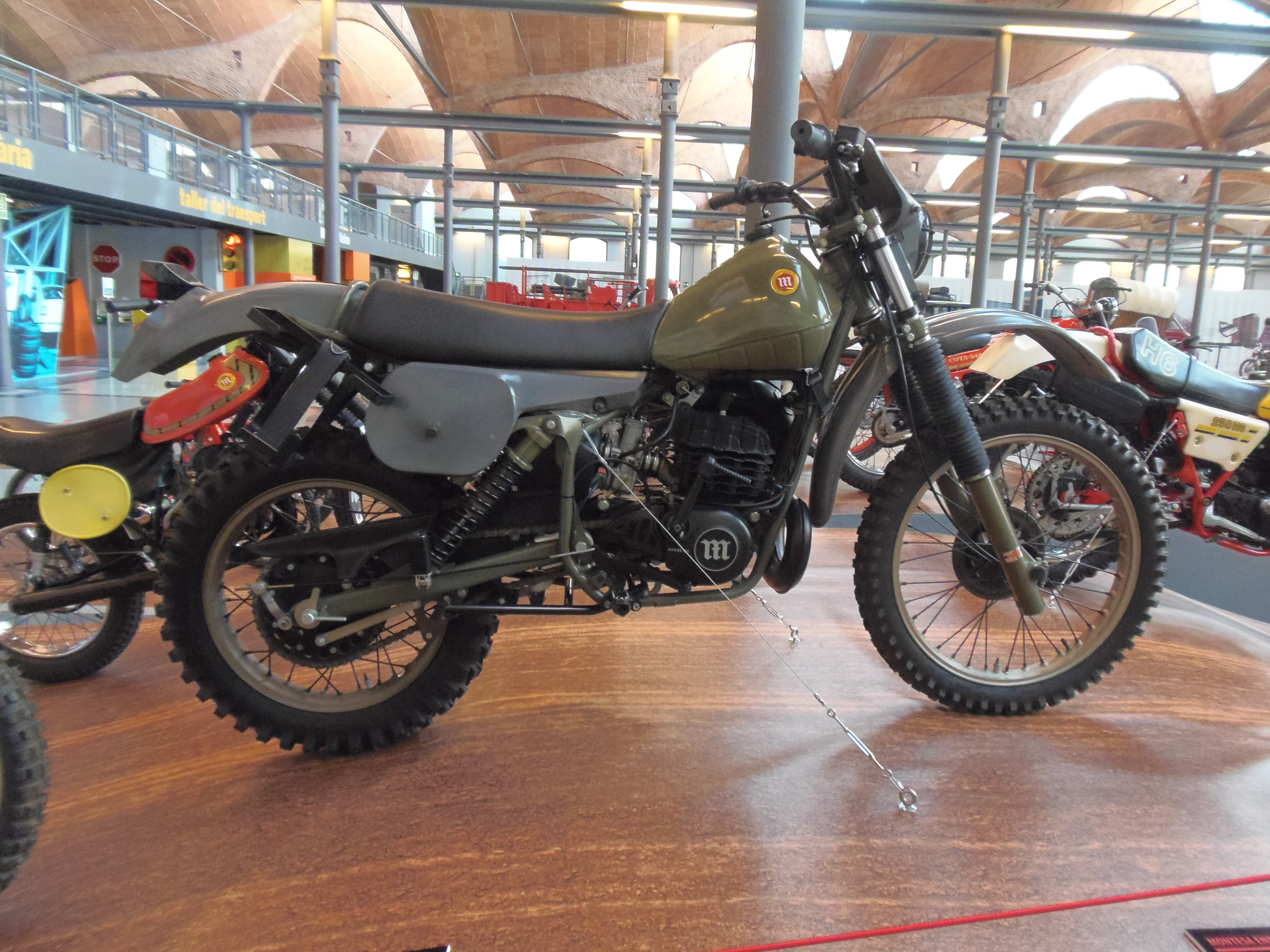 Montesa Enduro 360 H7 (the filename is wrong) Army 1982. Used by the spanish army.